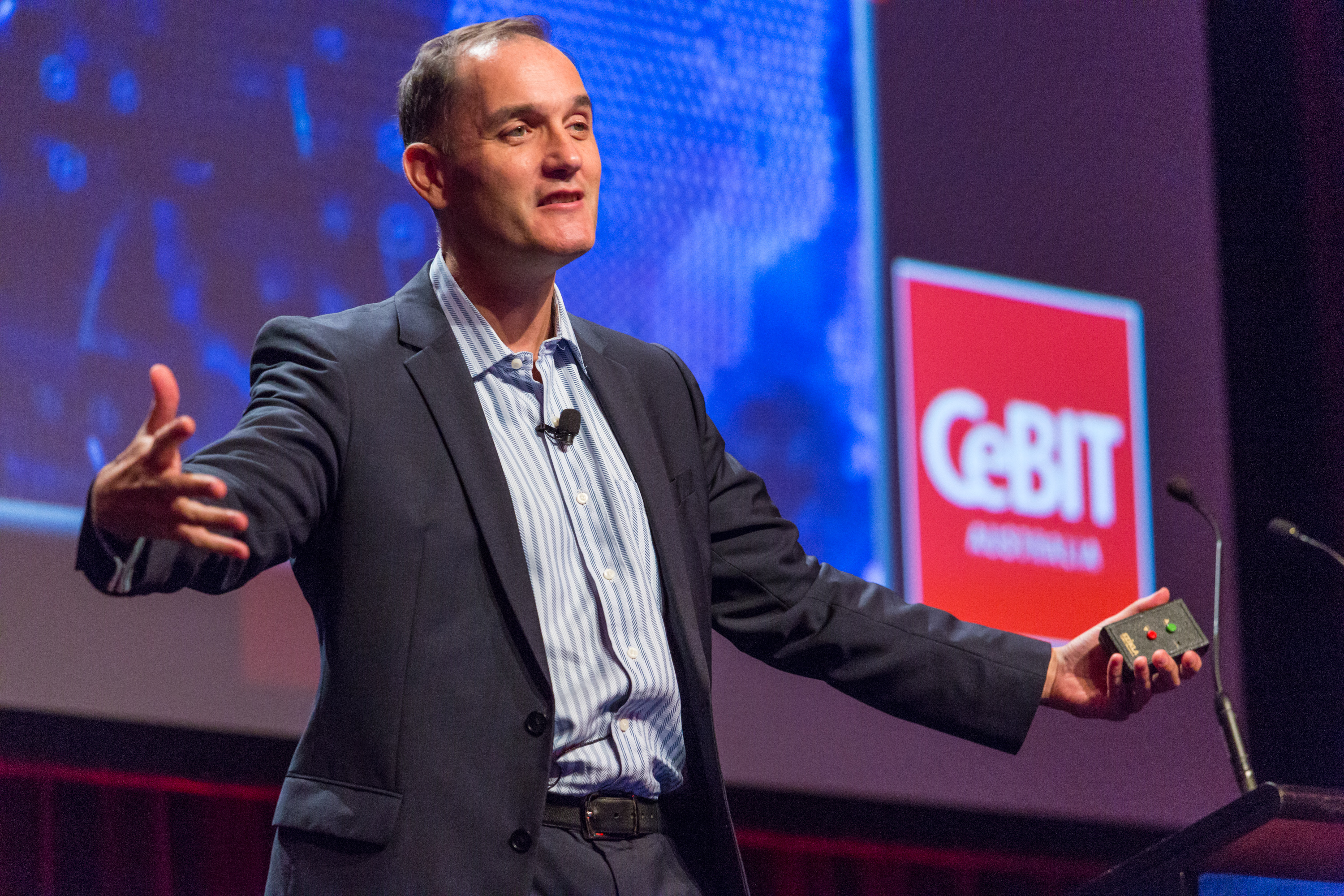 Day-1-Big-Data-&-Analytics-Conference-0077